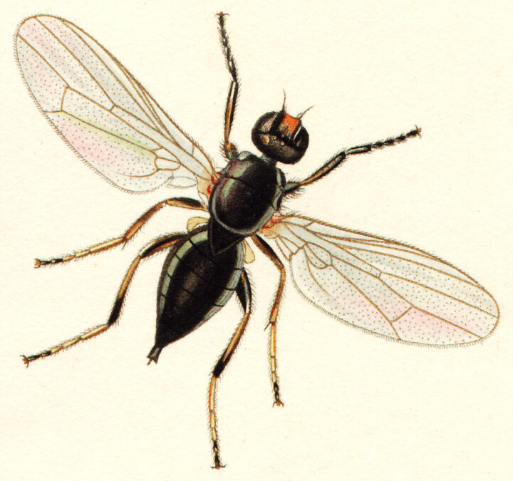 Detail of illustration from British Entomology: illustrations and descriptions of the genera of insects found in Great Britain and Ireland (1824–1840)